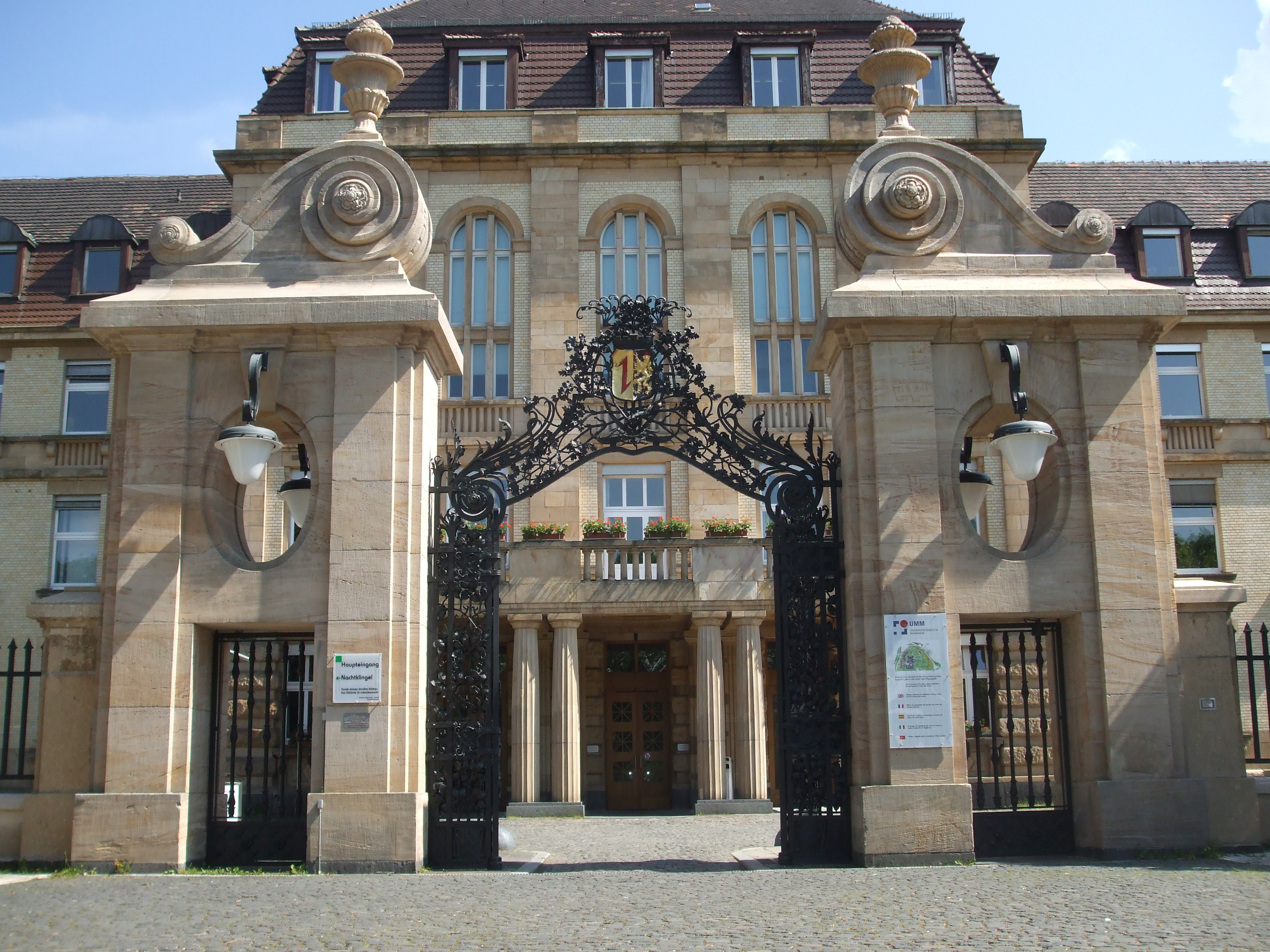 main entrance